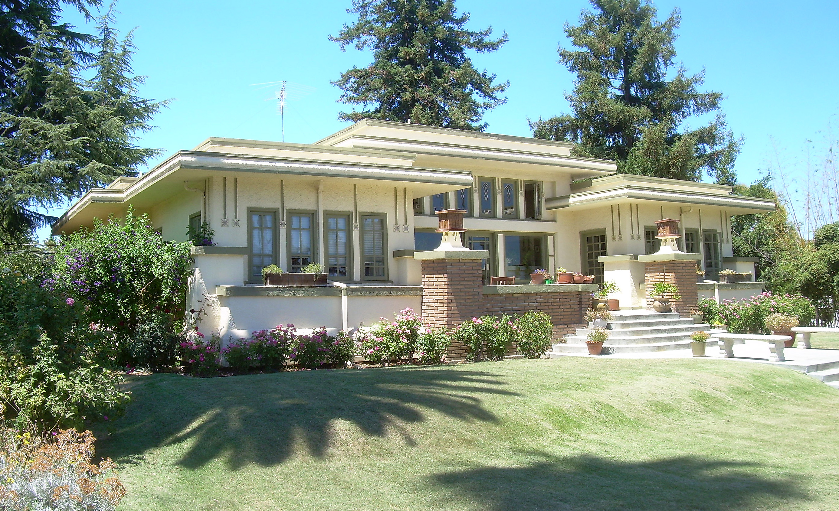 San Jose, California, from about 1913. Also here.